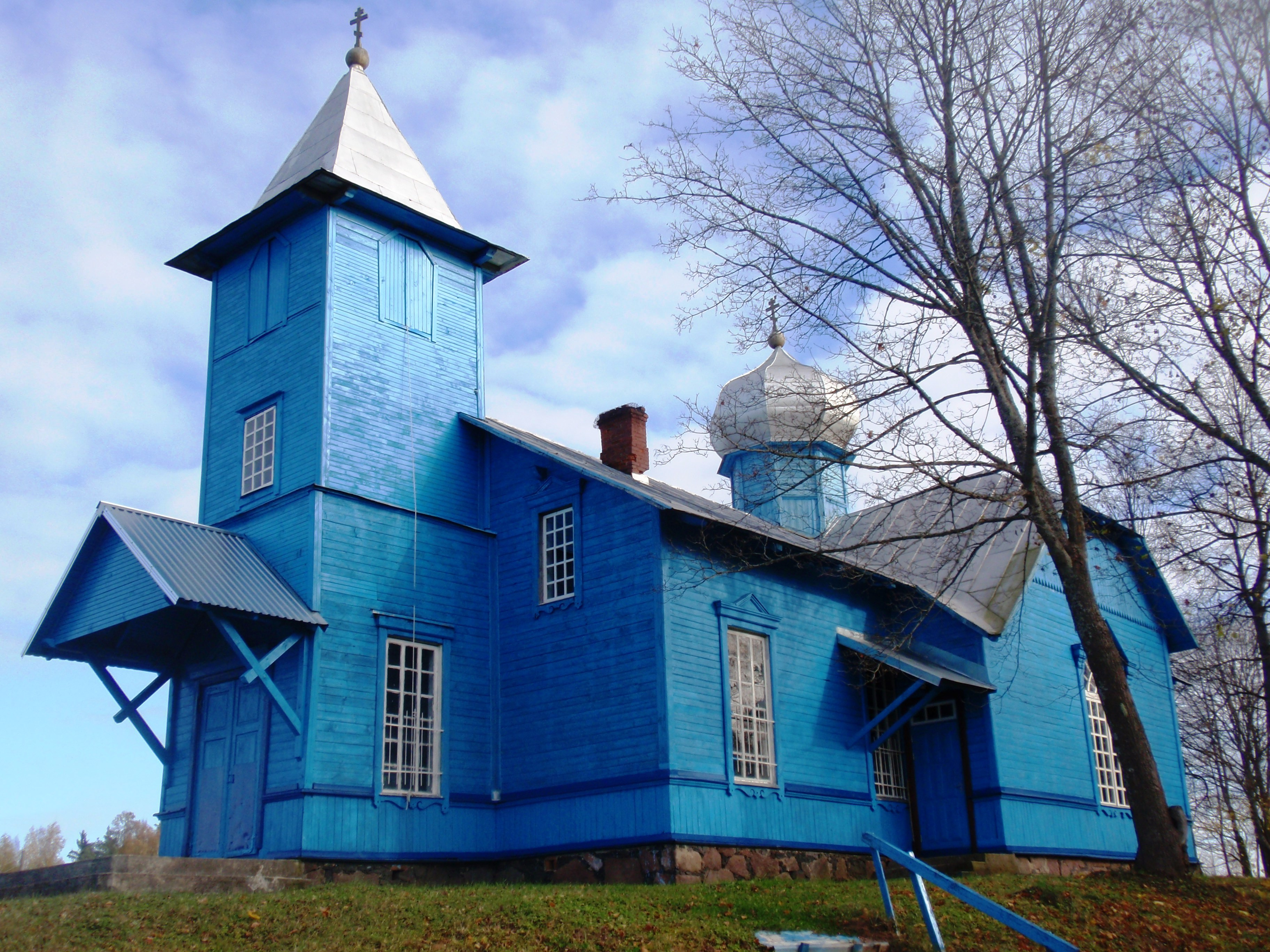 Blue church in Latvia